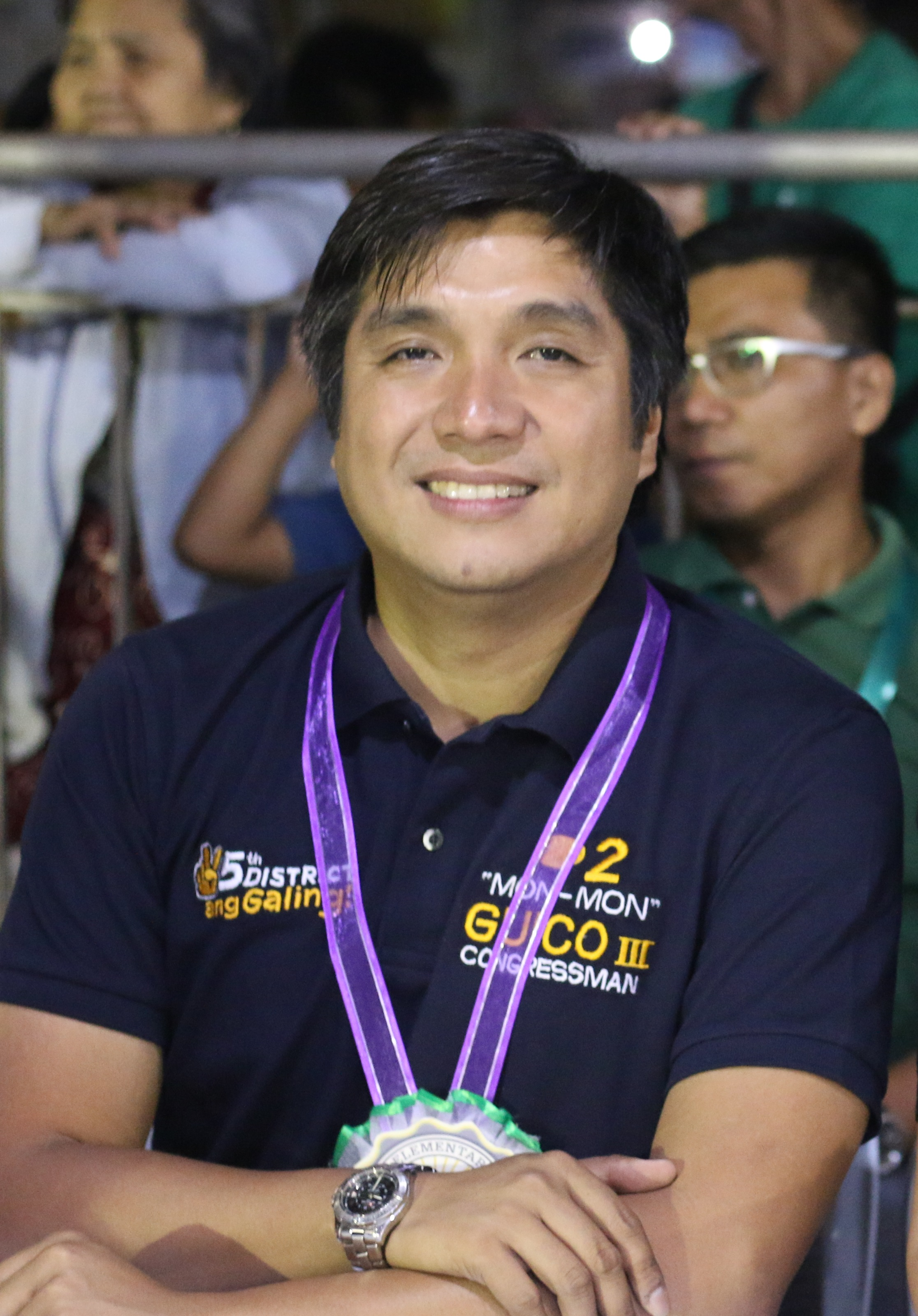 During the First Grand Alumni Homecoming San Felipe Elementary School, Binalonan.